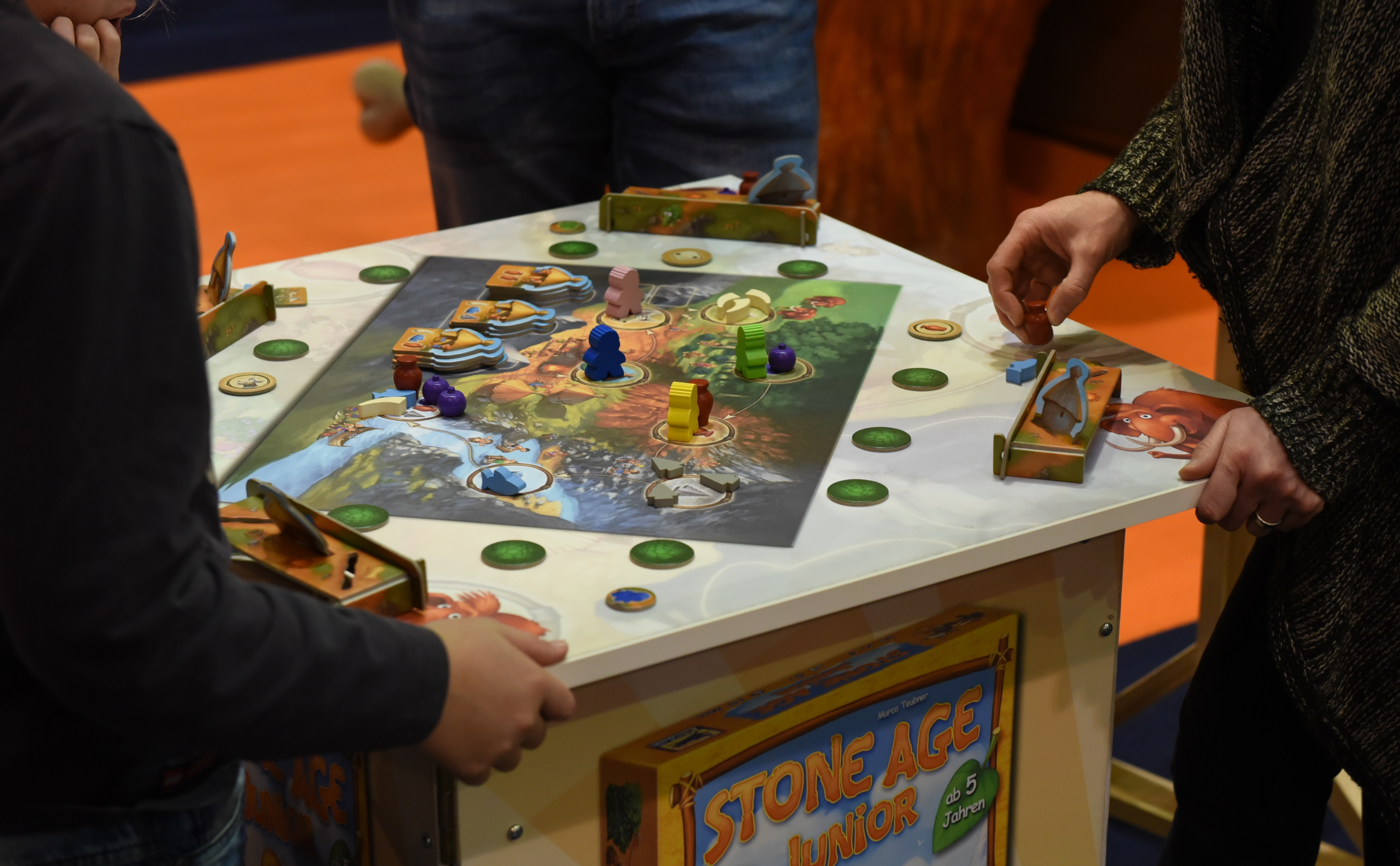 The game Stone Age Junior played at the board game fair Spiel '17 in Essen, Germany.